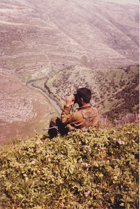 נהר הליטני. תו"ס על שפת מורדו הדרומי של ערוץ הנהר באיזור הכפר דיר סיריין. (1987) -התמונה צולמה על ידי דוד סומך